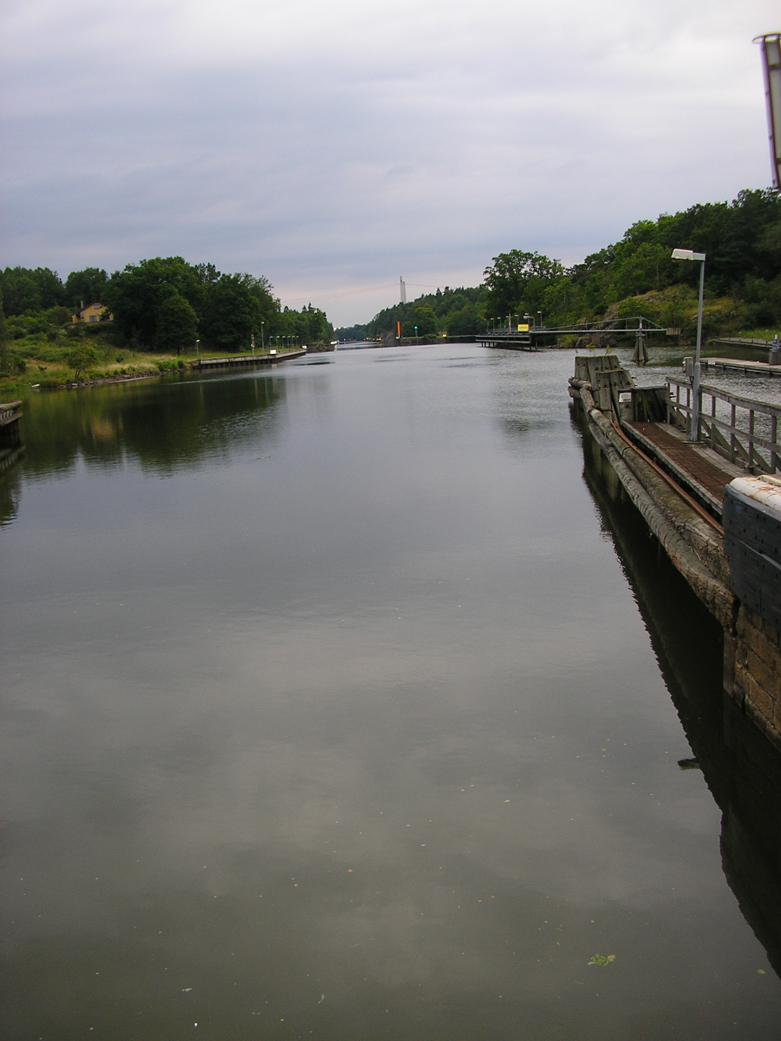 Karls grav, seen from the sluice at Brinkebergskulle.